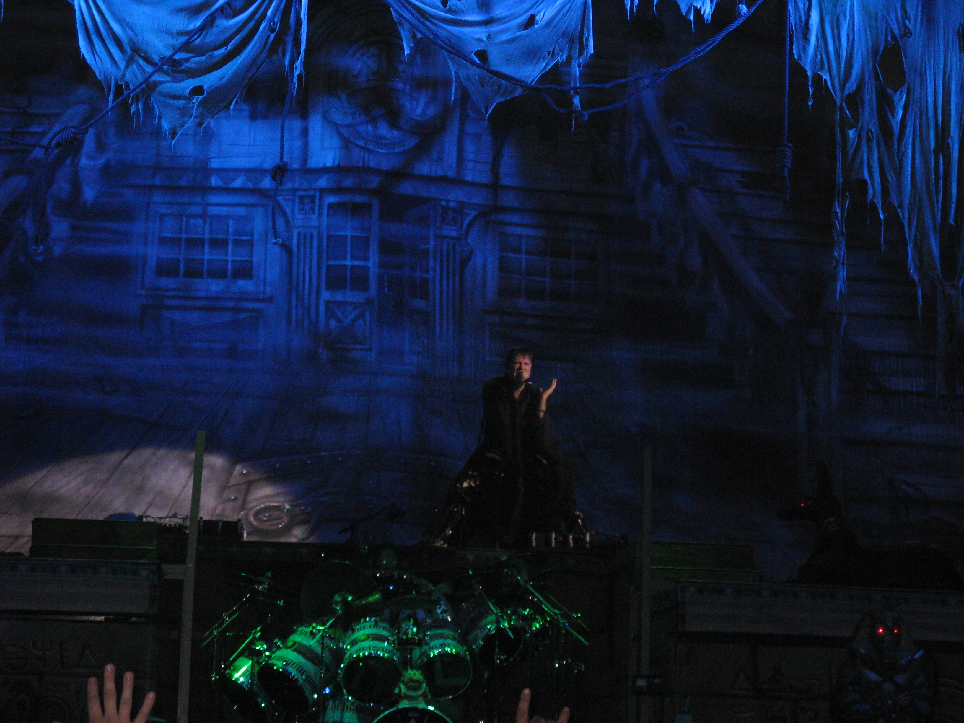 Bruce Dickinson performing "The rime of the ancient mariner" in Bercy on July 1st 2008